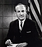 Jerry Pettis, US Representative from California